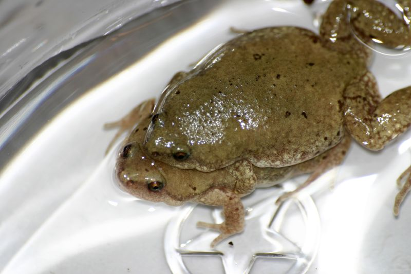 Gastrophryne olivacea